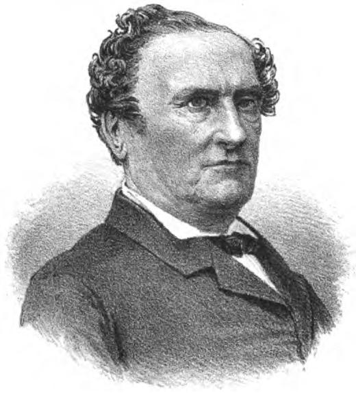 Portrait of Swedish actor Nils Almlöf from Thalia theater-kalender, 1866.